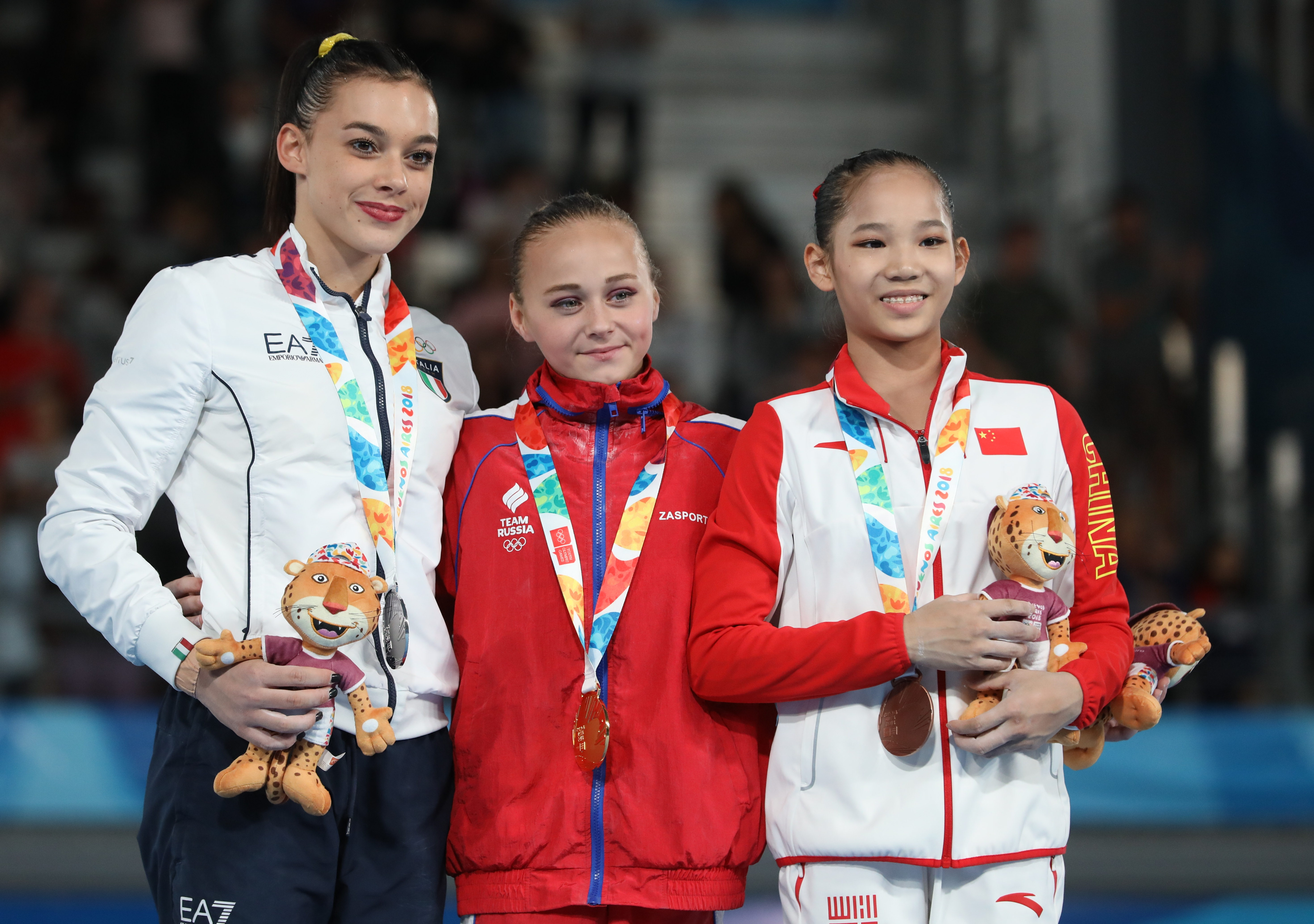 Girls' Artistic Gymnastics, Apparatus finals, Uneven bars